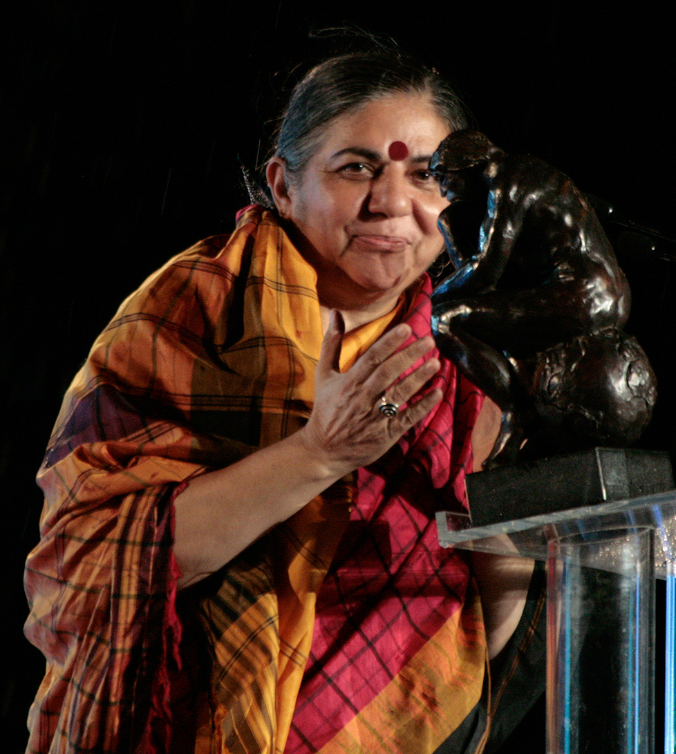 Vandana Shiva during the Save the World Awards 2009 (Zwentendorf Nuclear Power Plant, Lower Austria).